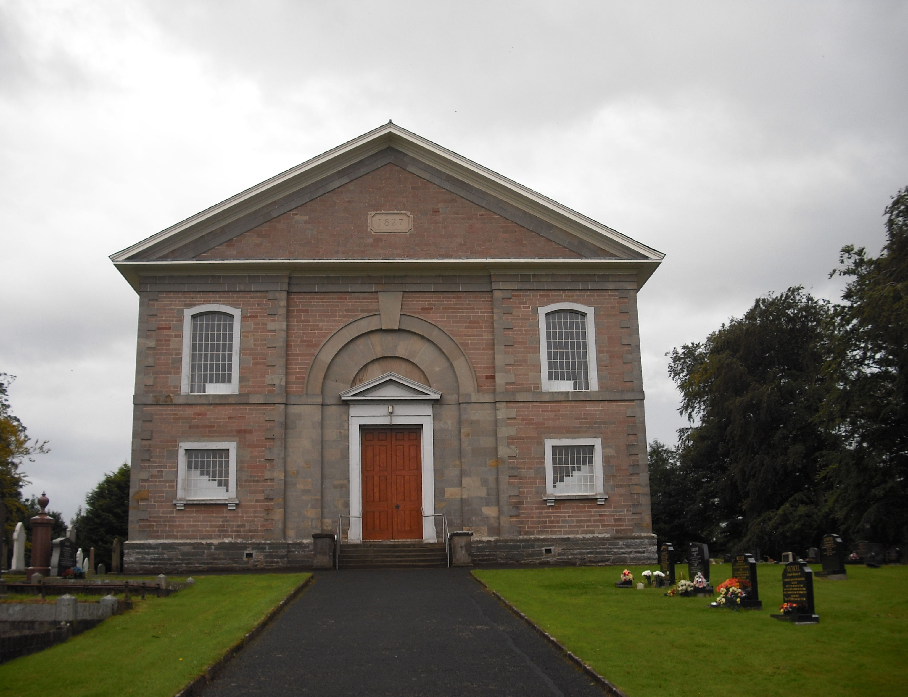 Ballykelly Presbyterian Church, Ballykelly, County Londonderry, Northern Ireland.